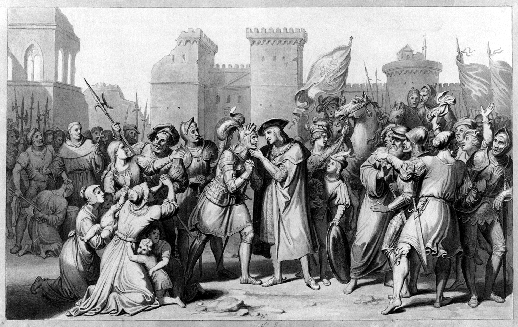 Pen-and-ink-drawing by Johannes Riepenhausen about 1836: Herzog Erich der Ältere von Calenberg und Kaiser Maximilian vor der Veste Kufstein in Tirol.